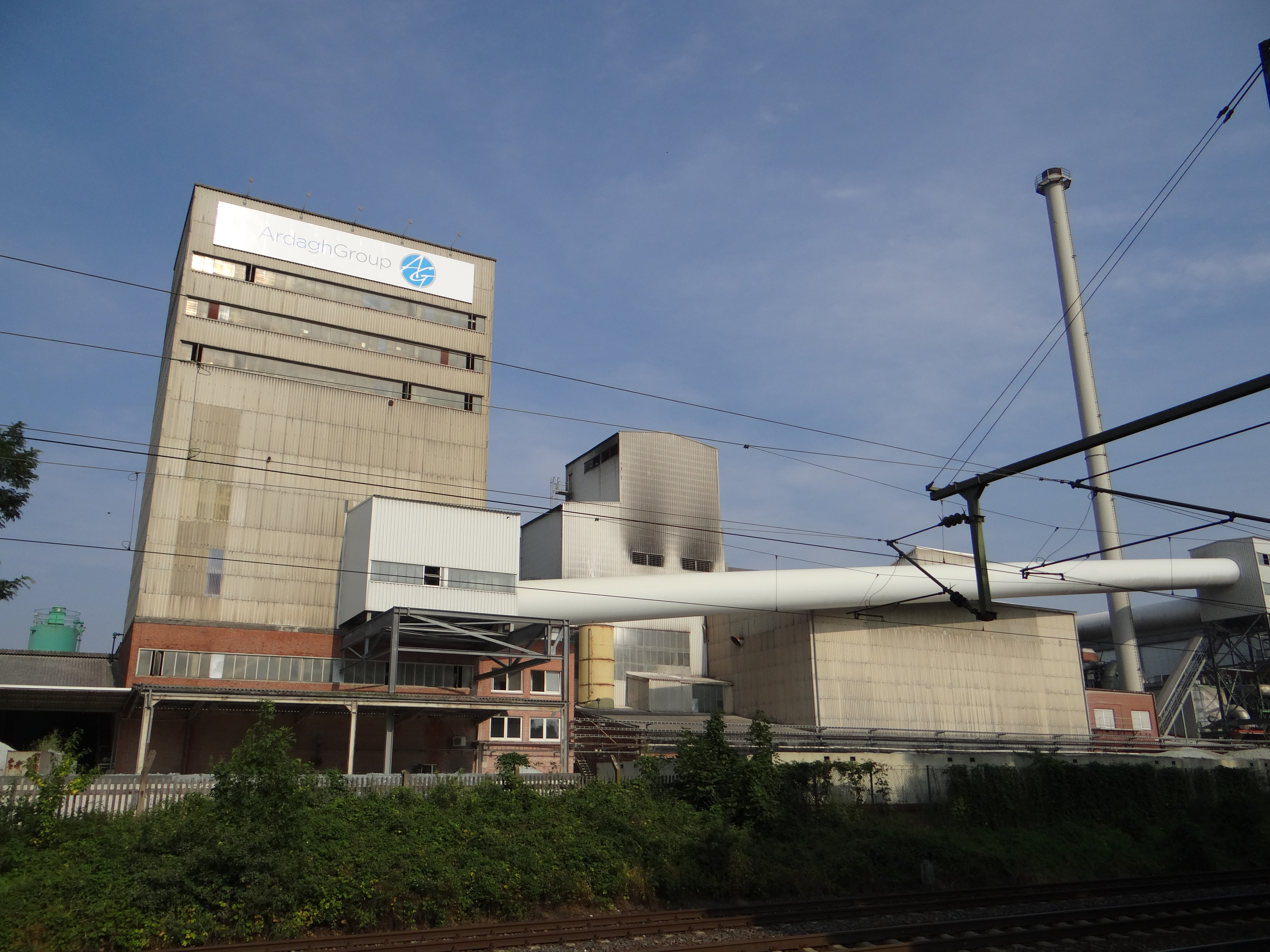 Ardagh glass works in Nienburg, Germany.